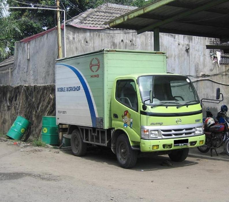 Hino Dutro 125ST WU300 Box.